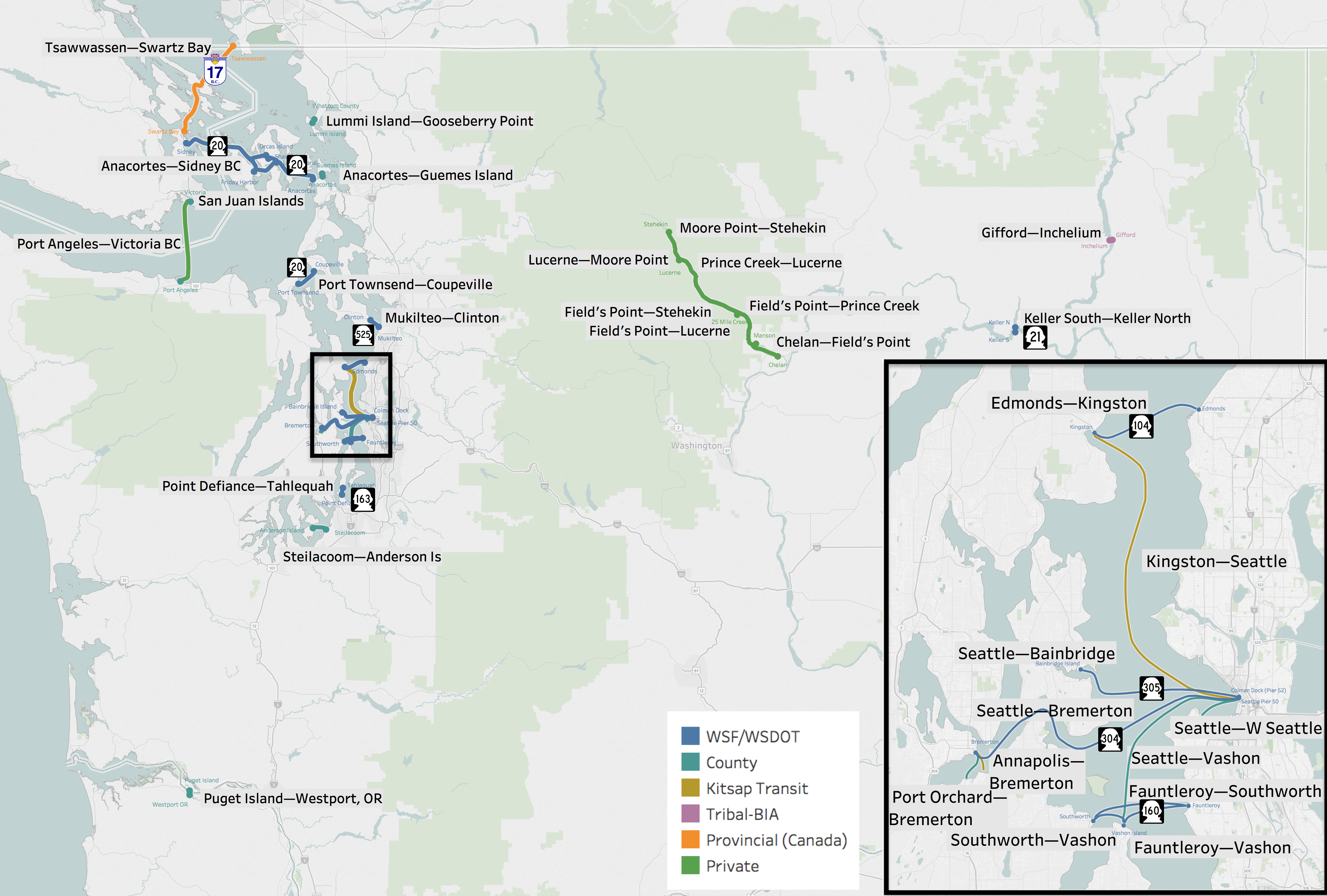 Map of the Ferries in Washington (state) showing routes, terminals, and ownership. Source WSDOT GIS Data Download: Ferry Routes. Published October 15, 2013, updated as needed. Ferry Terminals, Public and Private. Published June 6, 2013, updated as needed. Published by Washington State Department of Transportation. 2017. Accessed November 10, 2018.